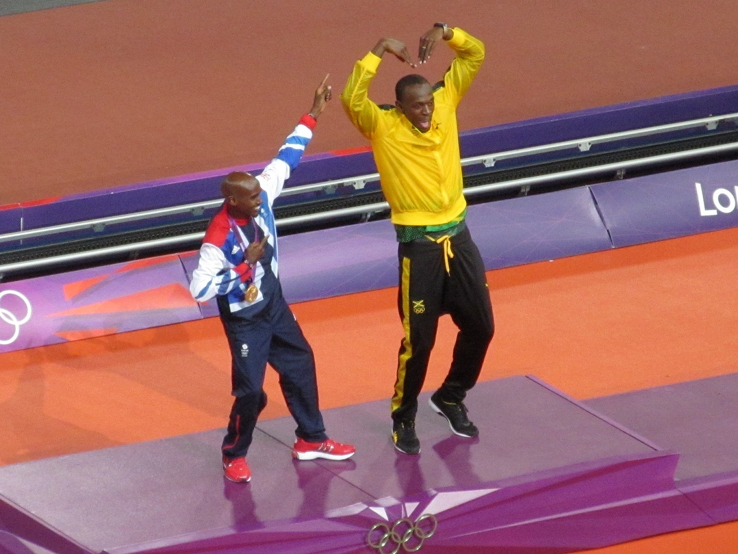 On the gold medal podium at the London Olympic Games 11th August 2012. This is a photo I personally took. Please feel free to use it at any resolution for any purpose - I'm only asking is that you let me know in a comment where it's been used. That's all!